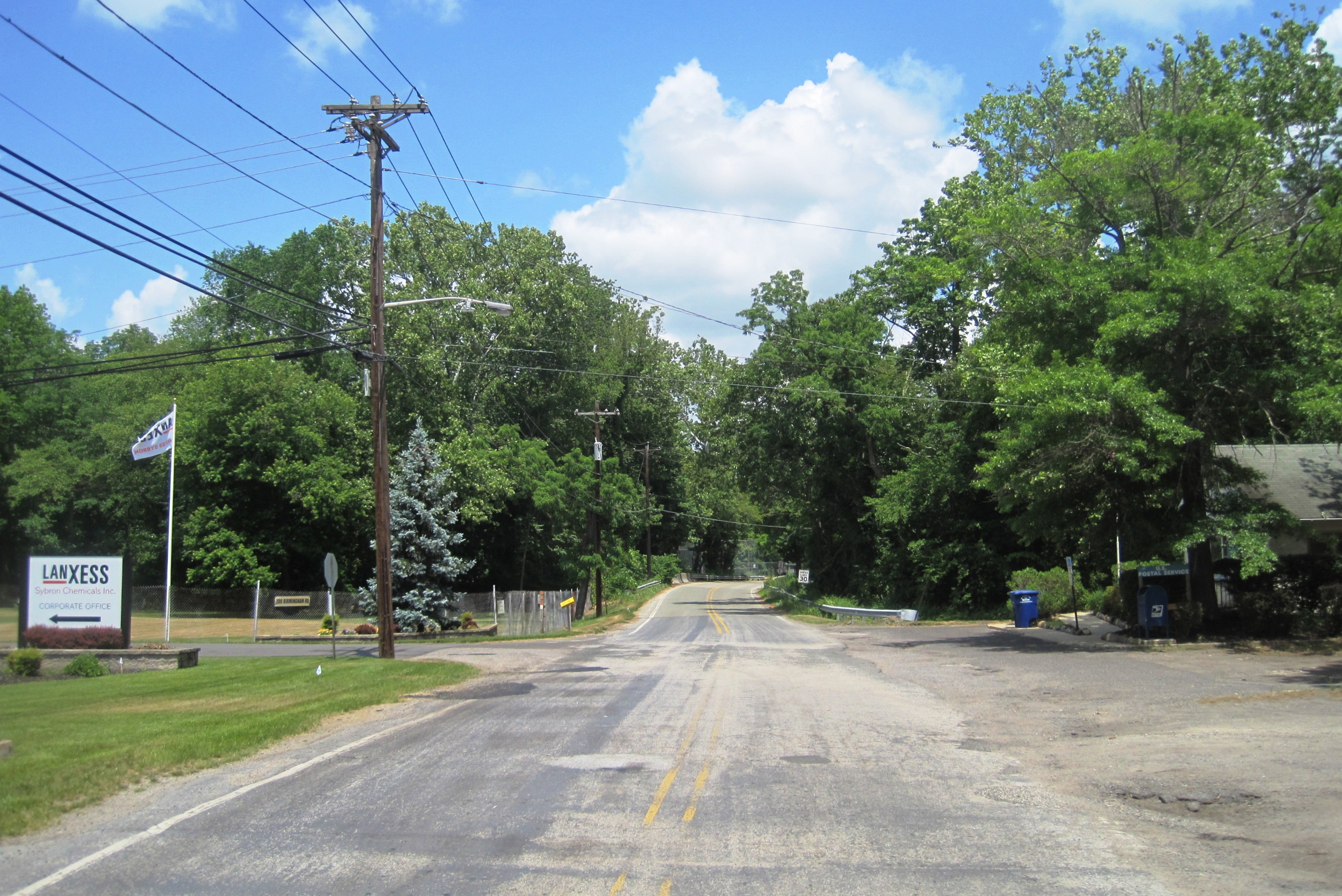 Photo of the unincorporated community of Birmingham, New Jersey within Pemberton Township. Photo taken on northbound Birmingham Road past Indian Trail.